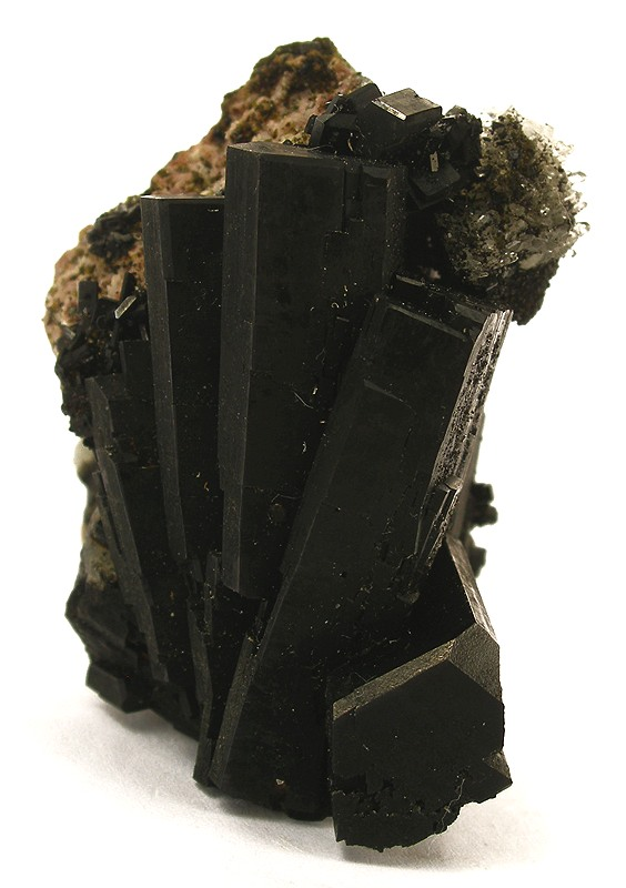 Babingtonite, Prehnite Locality: Hongquizhen Quarry, Meigu County, Liangshan Autonomous Prefecture, Sichuan Province, China (Locality at ) Size: miniature, 5.4 x 4.6 x 3.6 cm Babingtonite on Prehnite This fascinating specimen can be viewed in more than one plane of view. One direction has radiating, prismatic, lustrous, black babingtonite crystals, to 4 cm in length. The other direction showcases a tabular, lustrous, black crystal measuring 3 cm across, associated with minor prehnite (parked at the bottom of the spray if you stand it with the spray facing up). A very elegant specimen and an extremely rich miniature with significantly large crystals for this size category. These remarkable specimens come out of a very small, previously insignificant quarry that, according to MINDAT, is simply worked by the local farmers.